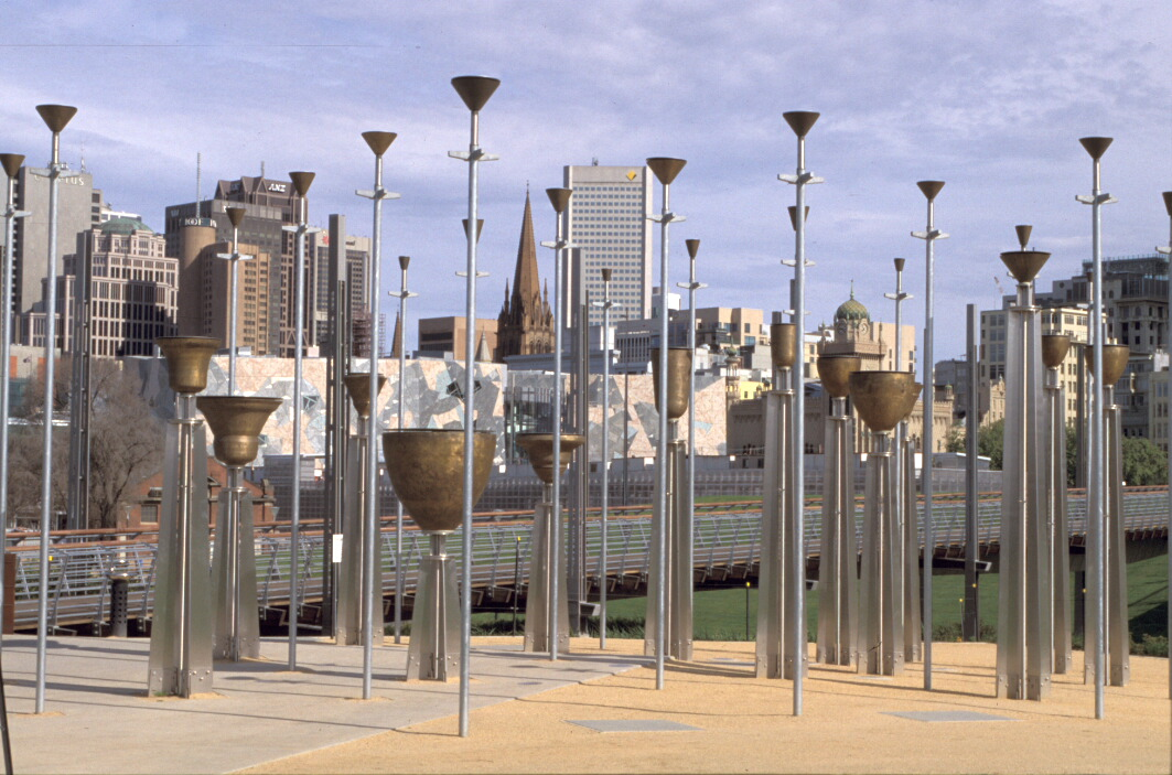 The 'Federation Bells' by Anton Haselt and Neil MacLachlan in Birrarung Marr, Melbourne. Photo by R Jones 2002. Image scanned from 35mm slide.